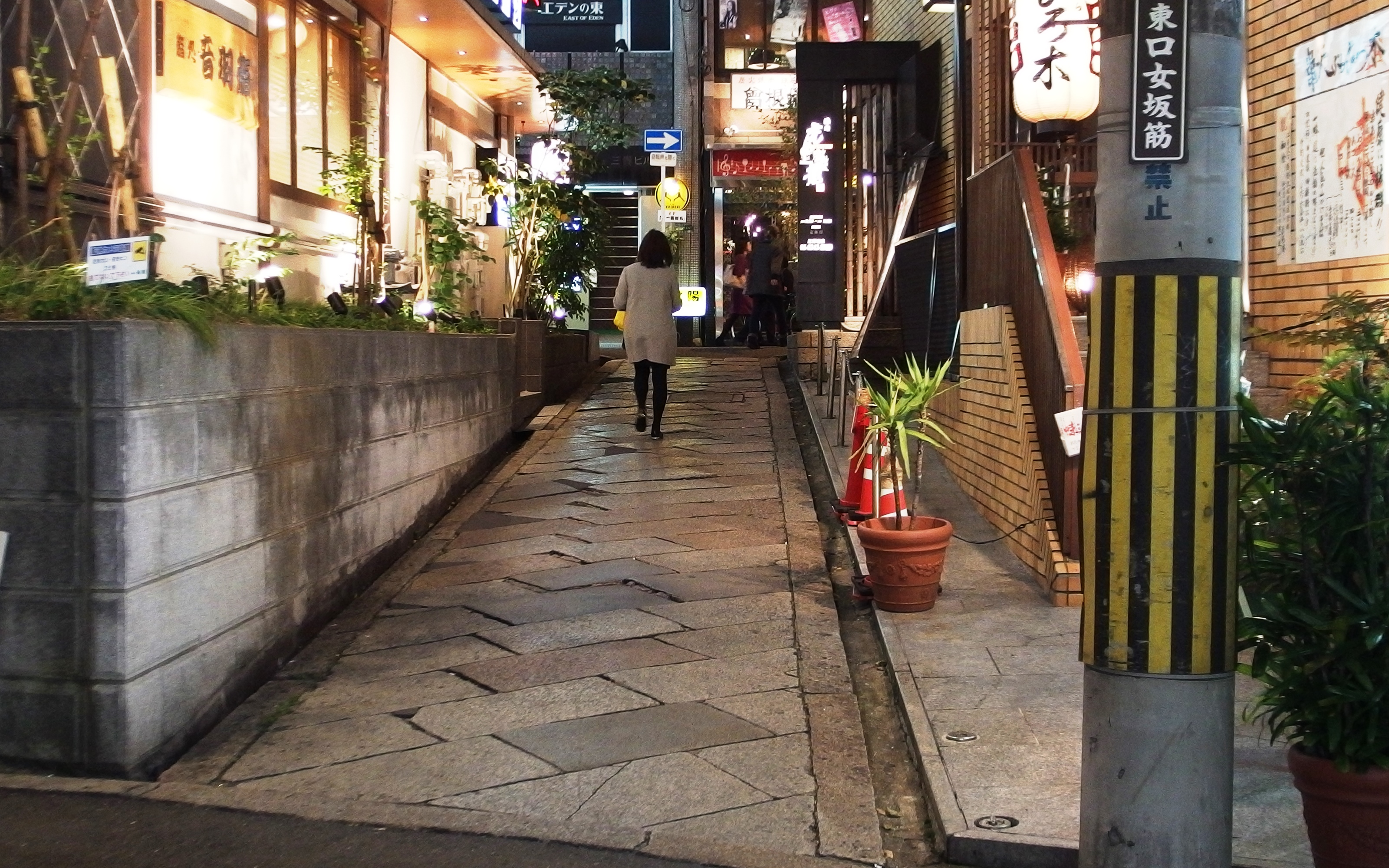 Kita-Sinchi, Osaka, Osaka Prefecture, Japan